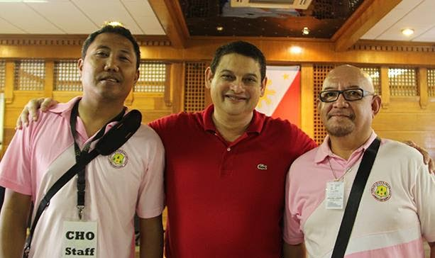 Senator TG Guingona's visit in Kabankalan, Negros Occidental